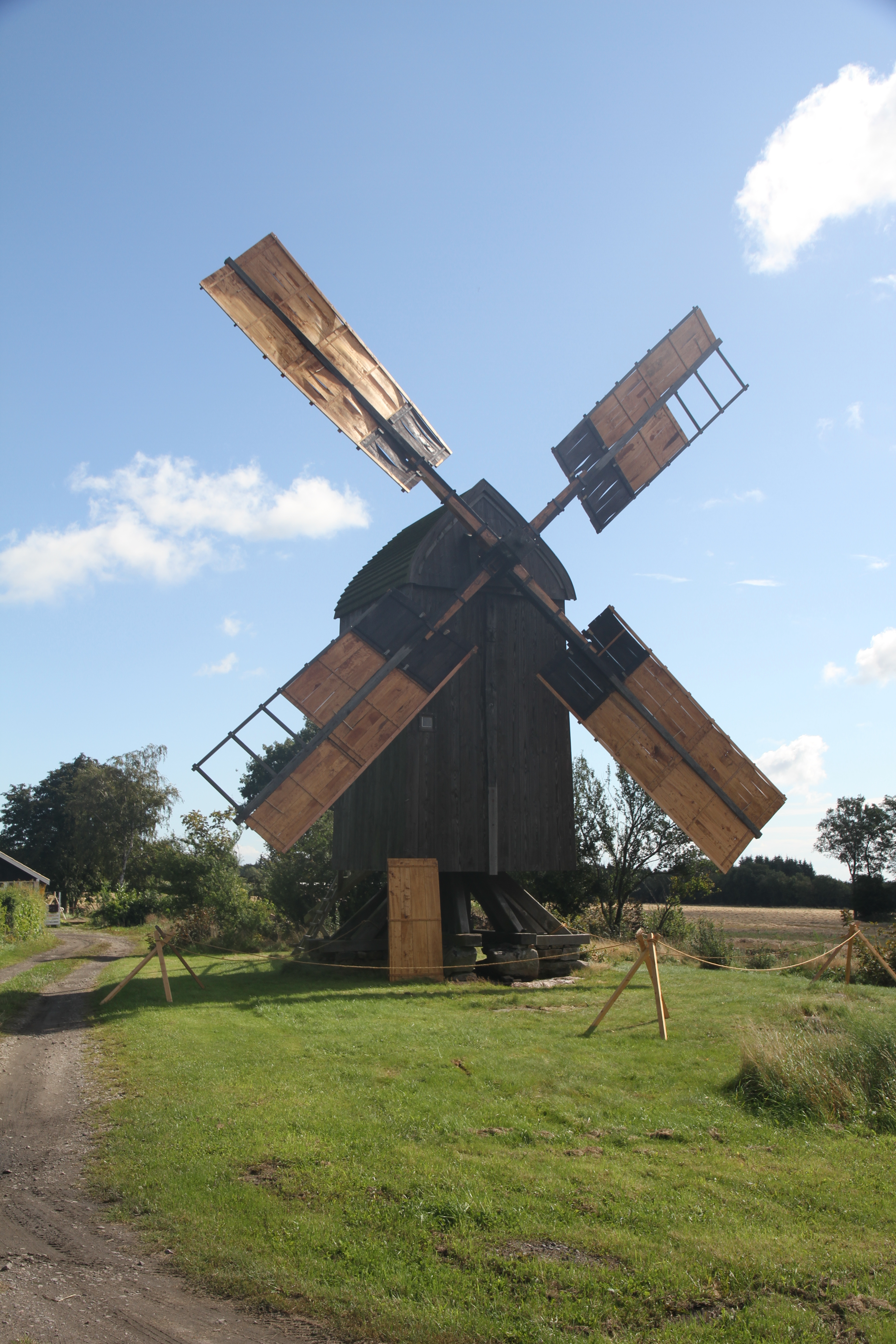 Pictures taken during the tims congress september 2011 Egeby postmill on Bornholm